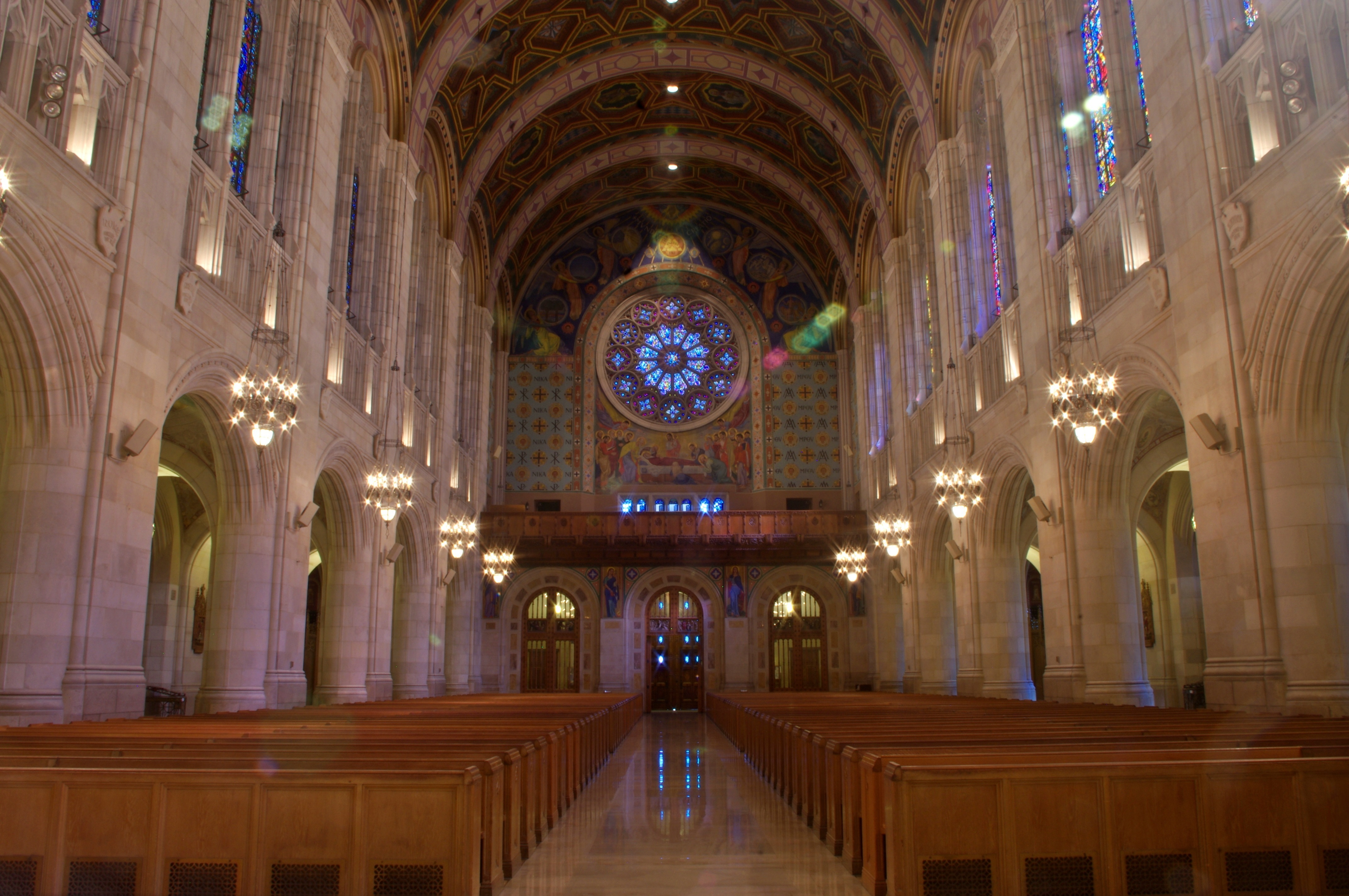 Our Lady, Queen of the Most Holy Rosary Cathedral (Toledo, Ohio) - rear of the nave